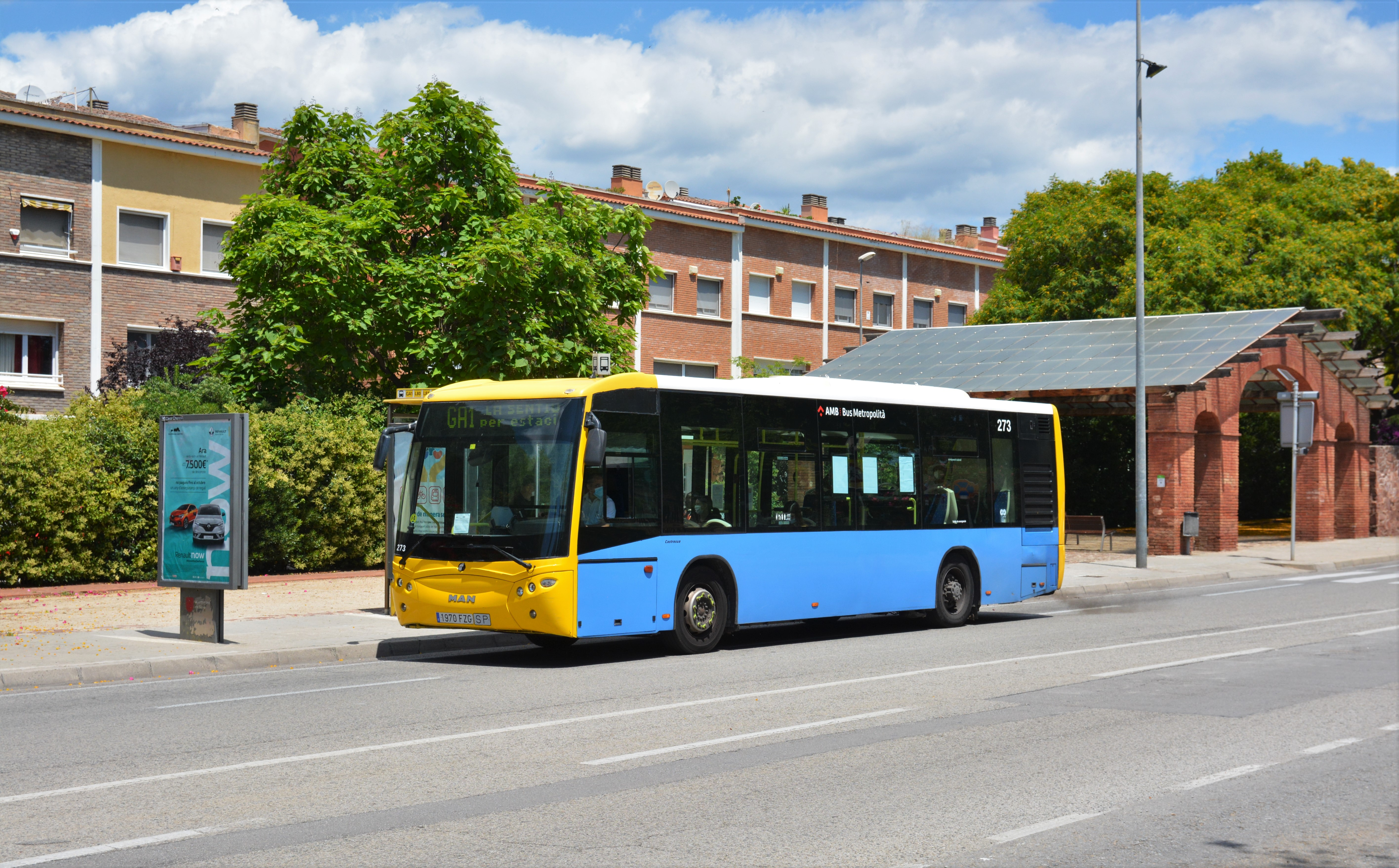 The 273 midibus of Mohn S.L. in Gavà, working a service in the city line GA1.